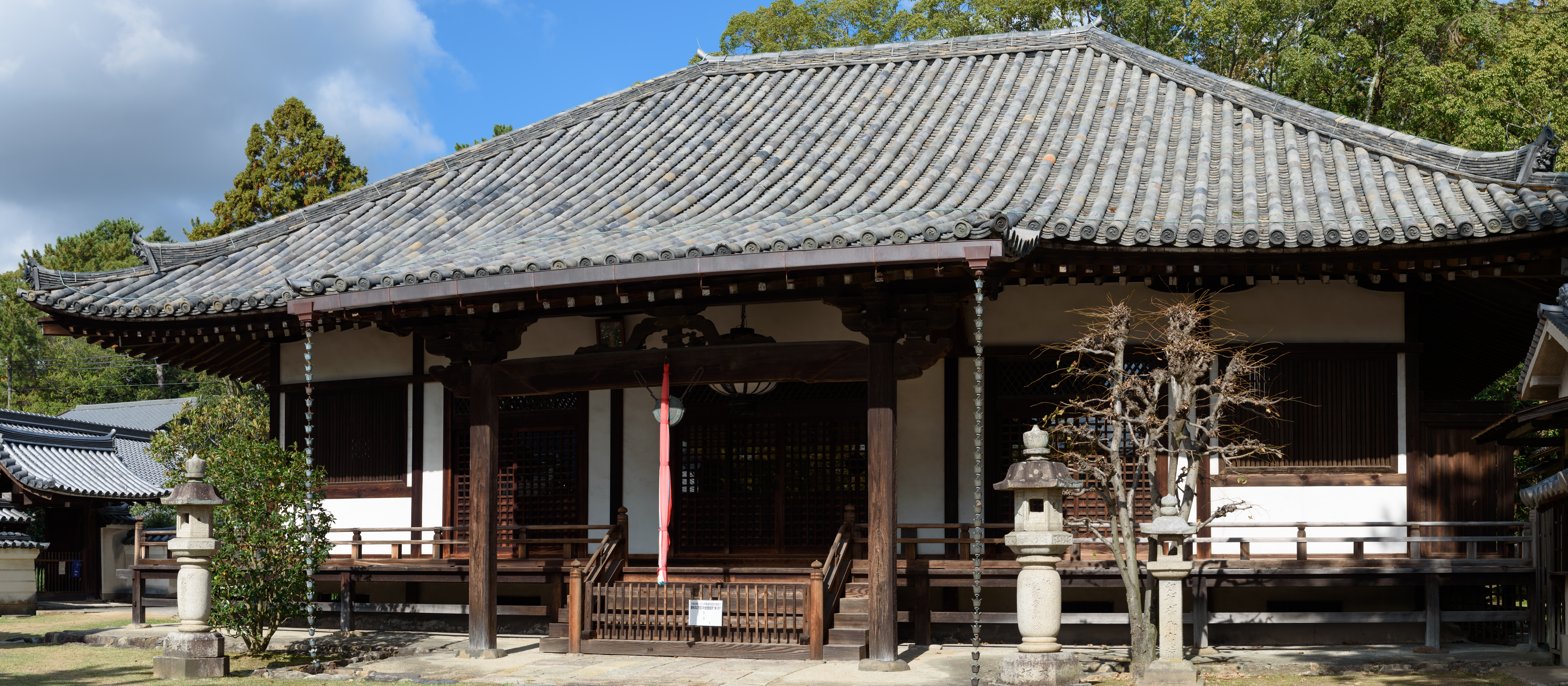 Bodai-in Omido Hall, one of the important structures of Kofuku-ji. It was the temple that belonged to Genbō during the Nara Period. The present structure was built in 1580.